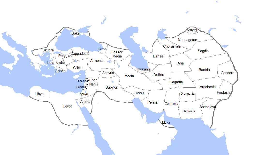 provinces/satrapies at the greatest extent of the achaemenid empire